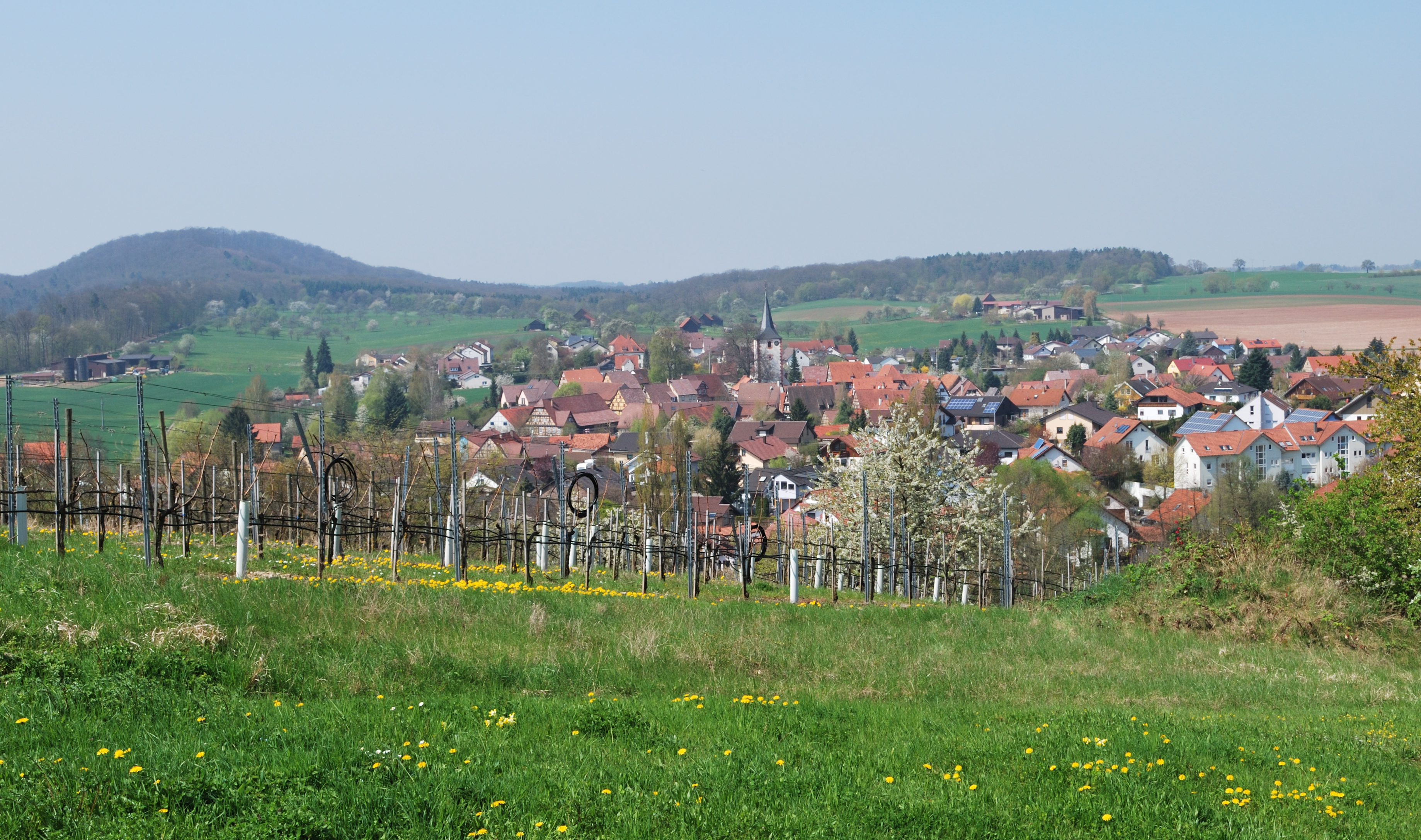 View of Diefenbach, a district of Sternenfels in Southern Germany.